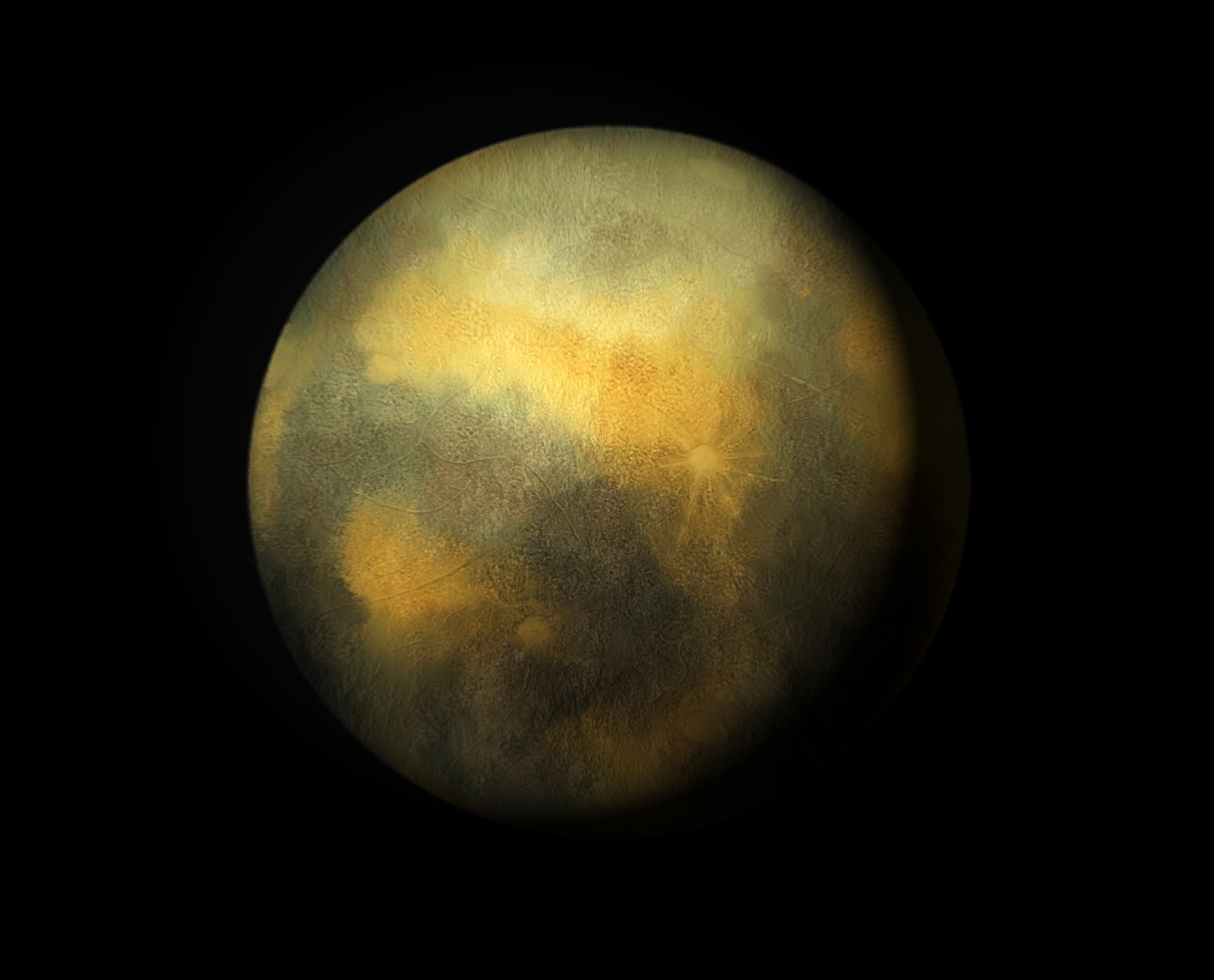 An artistic impression of Pluto based on images made by the Hubble Space Telescope. The texture is partially based on Neptune's moon Triton because it is believed to have been a Kuiper belt object like Pluto before capture. I've included several geologically recent impact features since the discovery of several small moons might suggest the system is active.